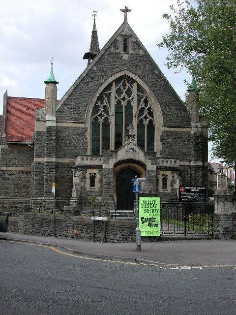 Knowle, Bristol, Methodist Church - At the corner of Redcatch Road and Wells Road